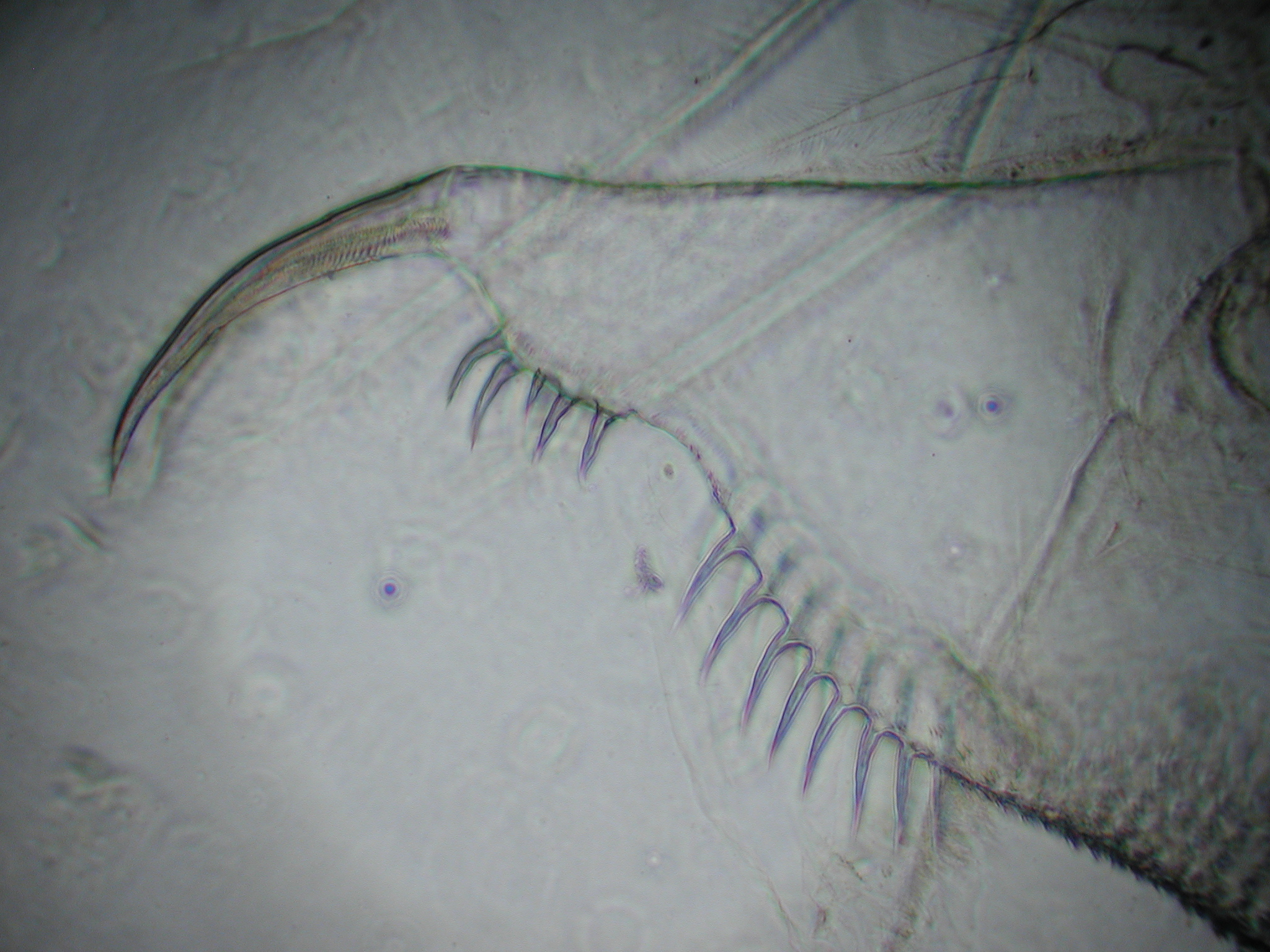 Abdomen with abdominal claw of Daphnia magna. The two combs with a gap on the margin and the deeply nicked posterior margin are diagnostic features of the species Daphnia magna.